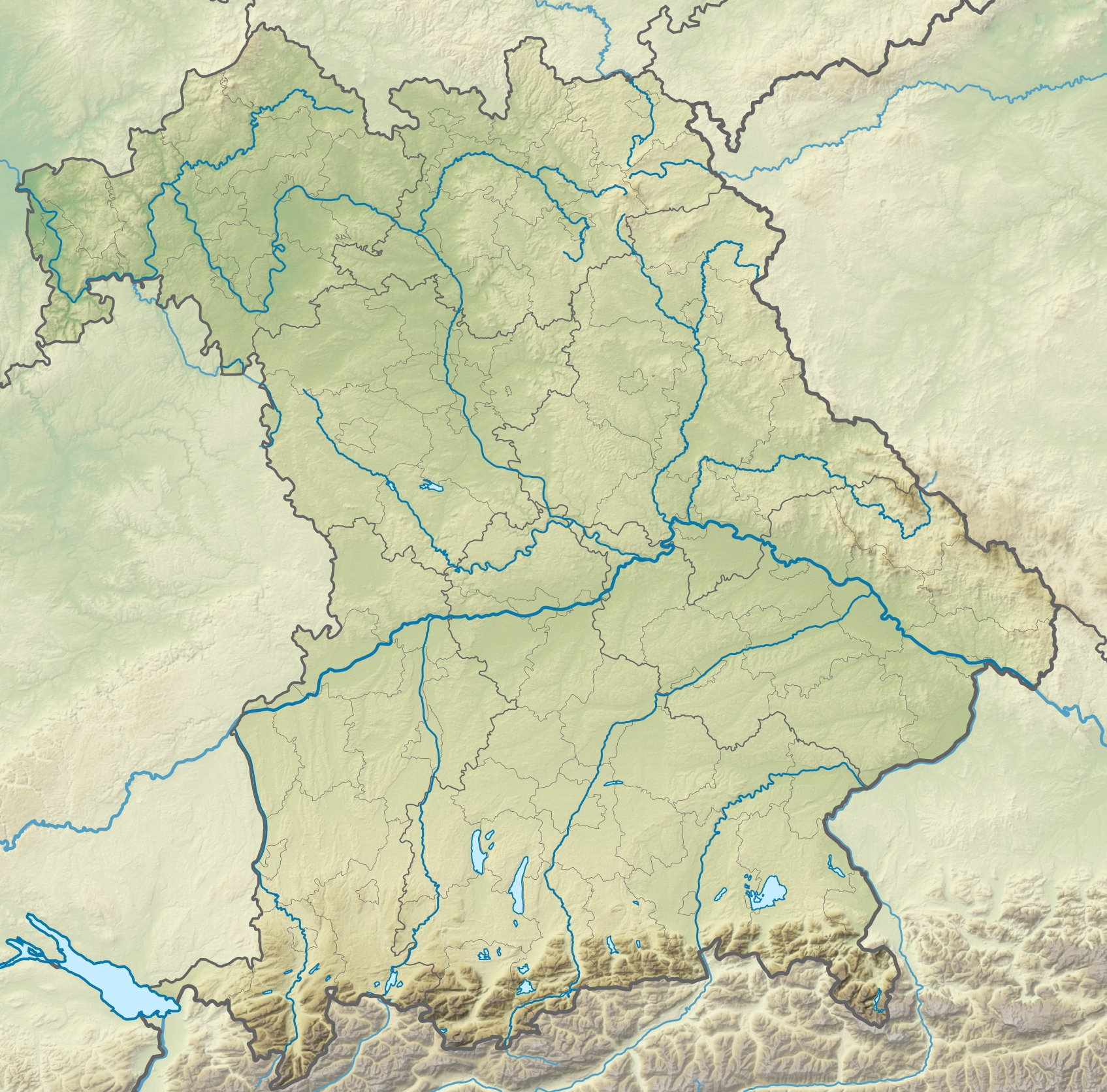 Physical Location map Bavaria, Germany. Geographic limits of the map: N: 50.6303000° N S: 47.26618° N W: 8.897552° O E: 14.059753° O